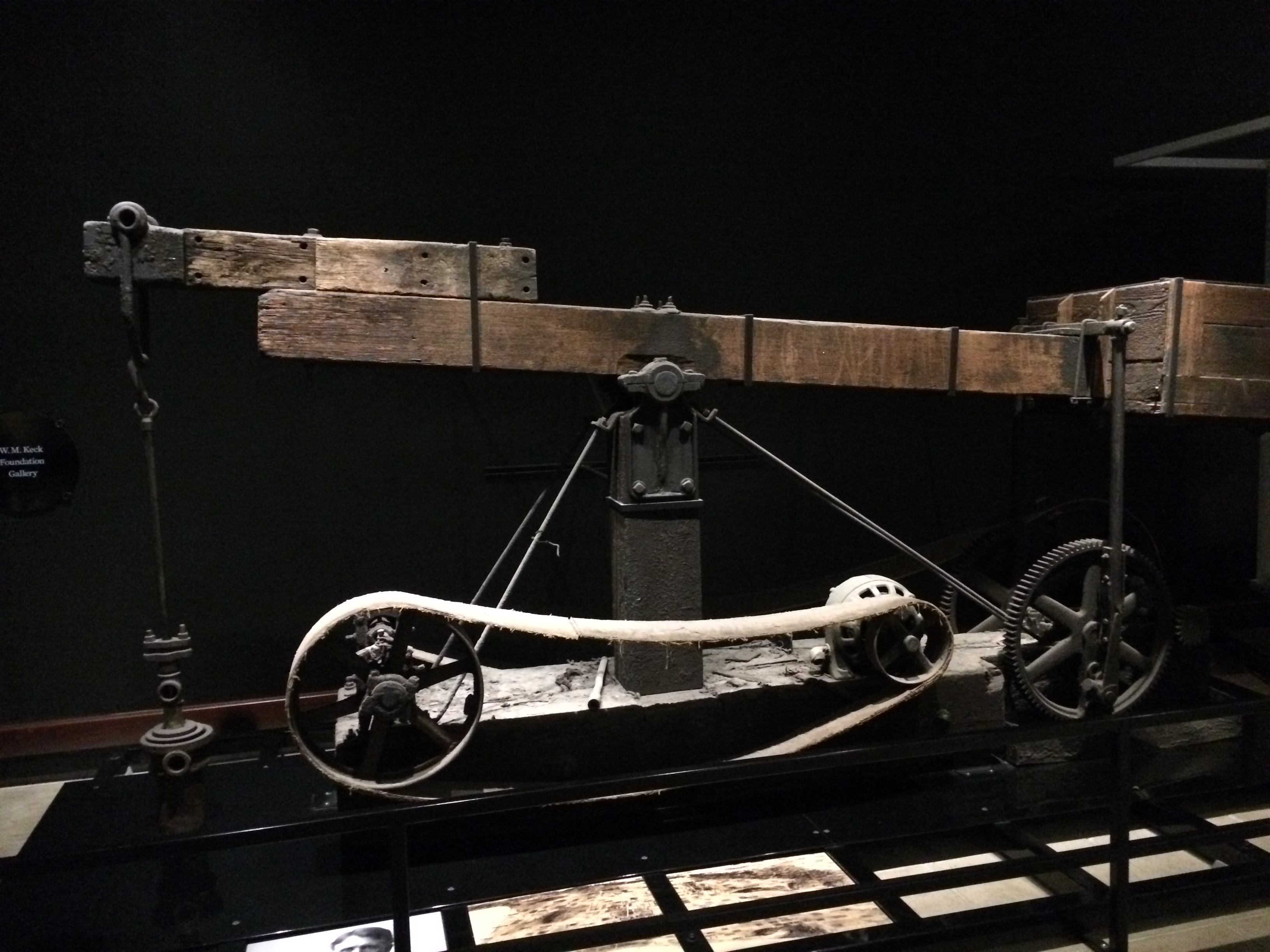 Old pumpjack, circa 1910s. WM Keck Foundation Gallery, NHM LAC